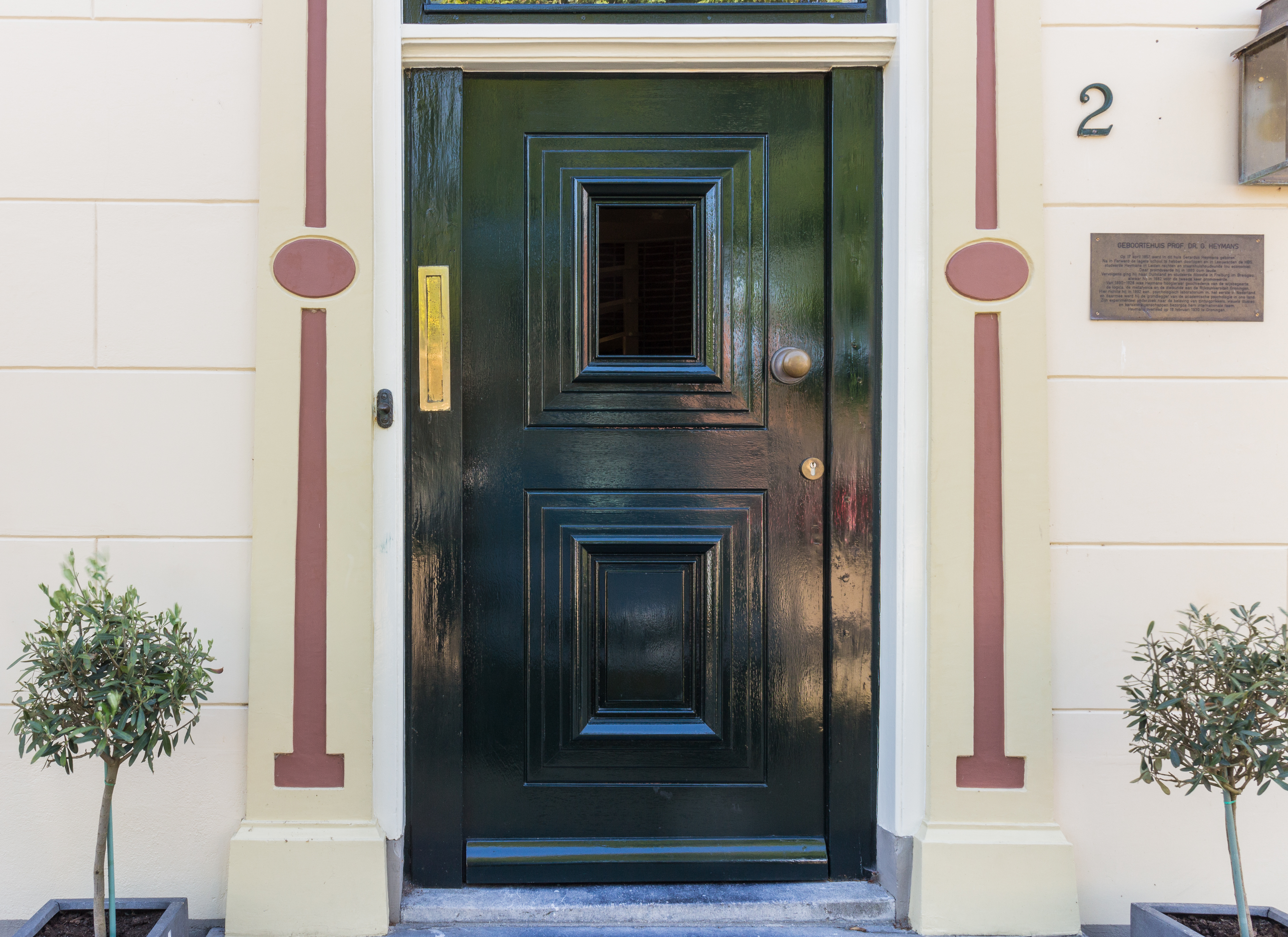 Vrijhof in Ferwerd. Vrijhof 2 in Ferwerd. Birth house of Gerard Heymans (detail).